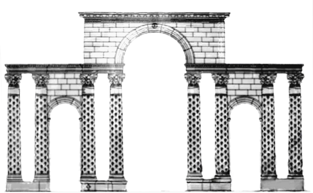 The possible appearance of the Triumphal Arch of Theodosius. The marble pieces that are located here belong to the Triumphal Arch and the forum built by and named after Emperor Theodosius the Great (4th century CE). The Triumphal Arch was situated on the southwest corner of the Theodosius Forum (today Beyazit Square). This area used to be called "Forum Tauri" (The Bull Square) but in the 4th century CE the name was changed into the "Forum of Theodosius". During this period, the forum was surrounded by marble public and civil buildings decorated with porticoes. The marble archeological pieces that can be seen today were found between the years 1948 and 1961 during the rearrangements of Beyazit Square and Ordu street. After the discovery of these pieces, an experimental reconstruction was made in spite of the absence of some pieces and finally the probably form of the monument was established. According to this reconstruction, the triumphal arch had a vaulted roof with three passageways. The central one was higher and the ones on either sides lower. It was conceived to be similar to the ones in Rome. In the middle was the statue of Theodosius, while on both sides statues of his sons were put up, Arcadius and Honorarius. Today the main street that starts from the Hagia Sophia Square is basically in the same direction to the west with the ancient Mese road, which formed the main artery of the old city. The Mese, passing through the Theodosius triumphal arch continued on to Thrace and reached out the Balkan peninsula. The triumphal arch and the surrounding ancient buildings to which some ruins possibly belong were destoryed as a result of invasions and natural disasters like earthquakes from the 5th century on. Thus their destruction was completed long before the conquest of Constantinople by the Ottoman Turks.